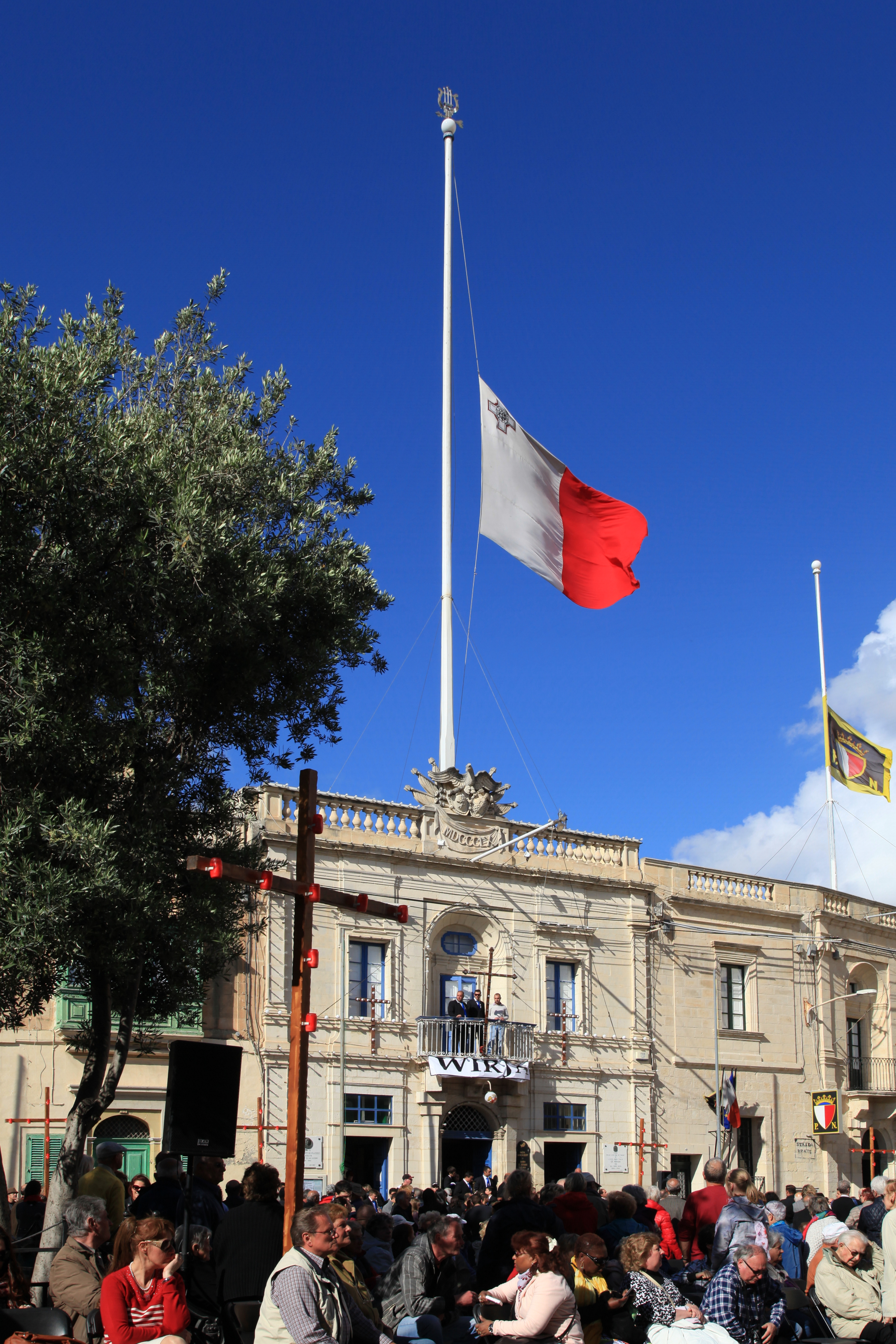 2014 Good Friday procession, Misraħ San Filep in Żebbuġ, Malta